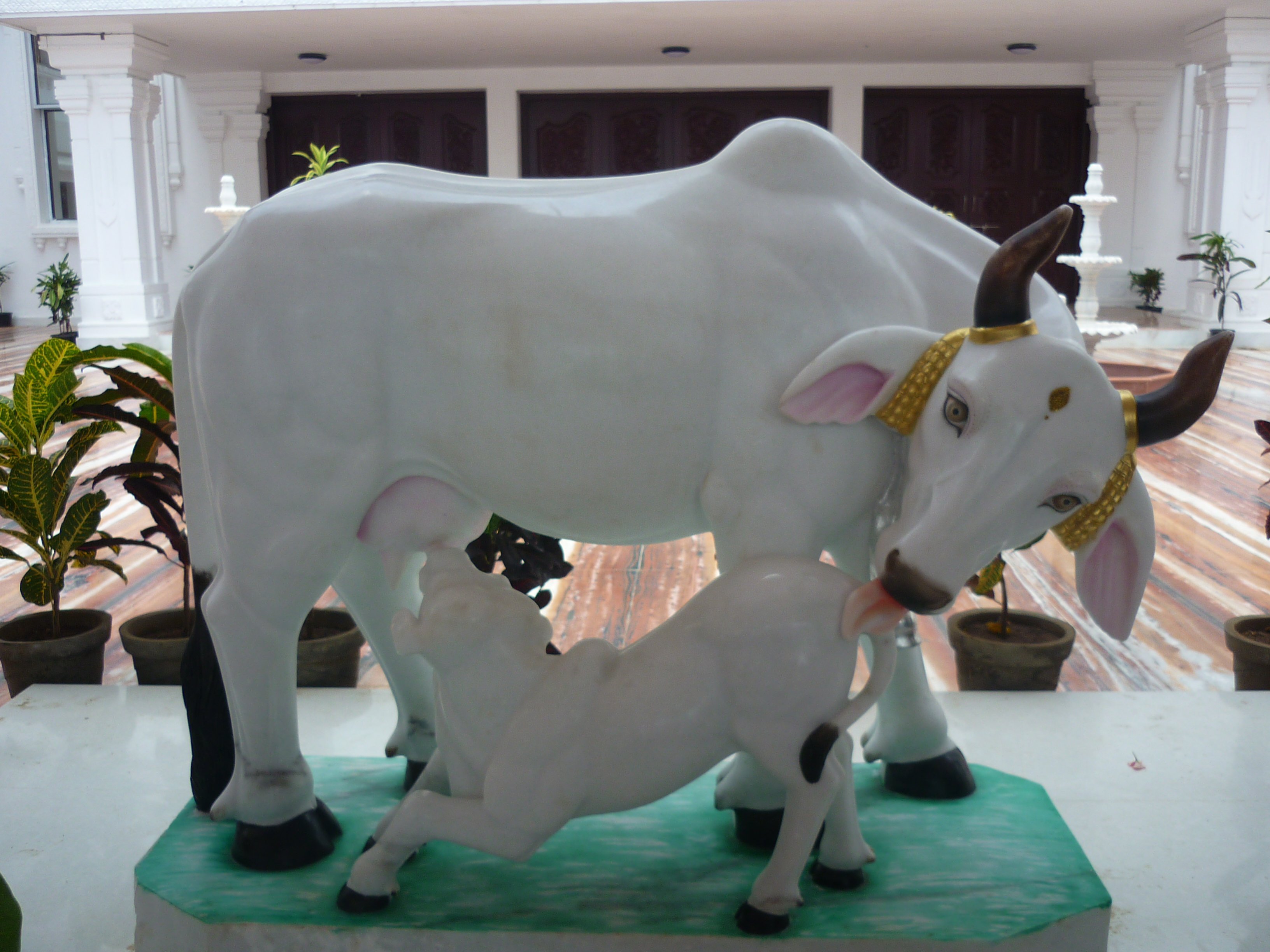 ISKCON Temple Chennai, Statue of Cow feeding her Calf, taken on 1-May-2012